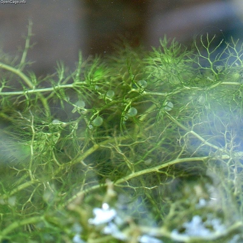 タヌキモ Bladder worts (Utricularia australis); U. japonica is a synonym of U. australis per Peter Taylor (1989), monograph of the genus.